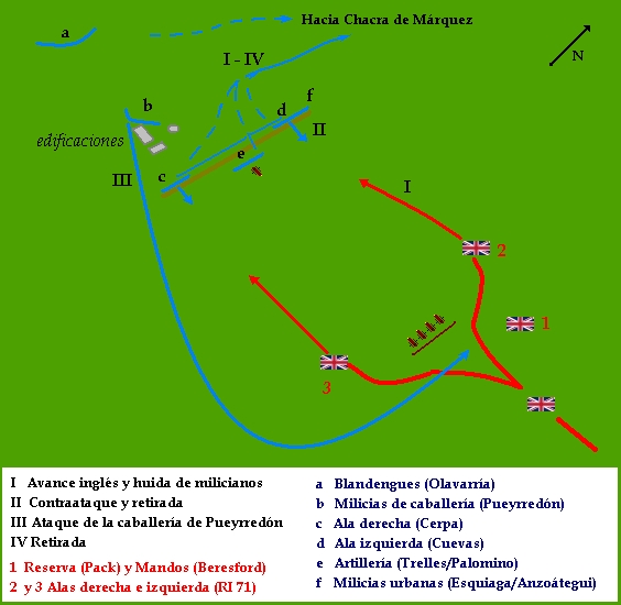 Map of the Combat of Perdriel (1/8/1806)